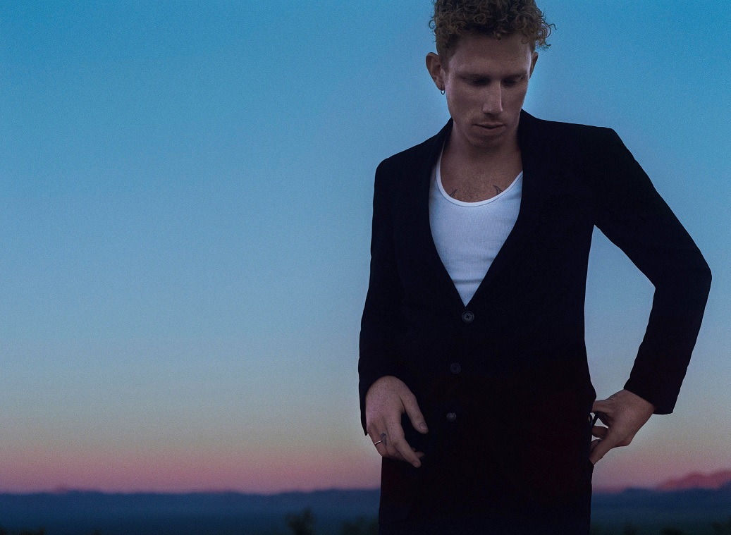 Erik Hassle press image from RCA Records.